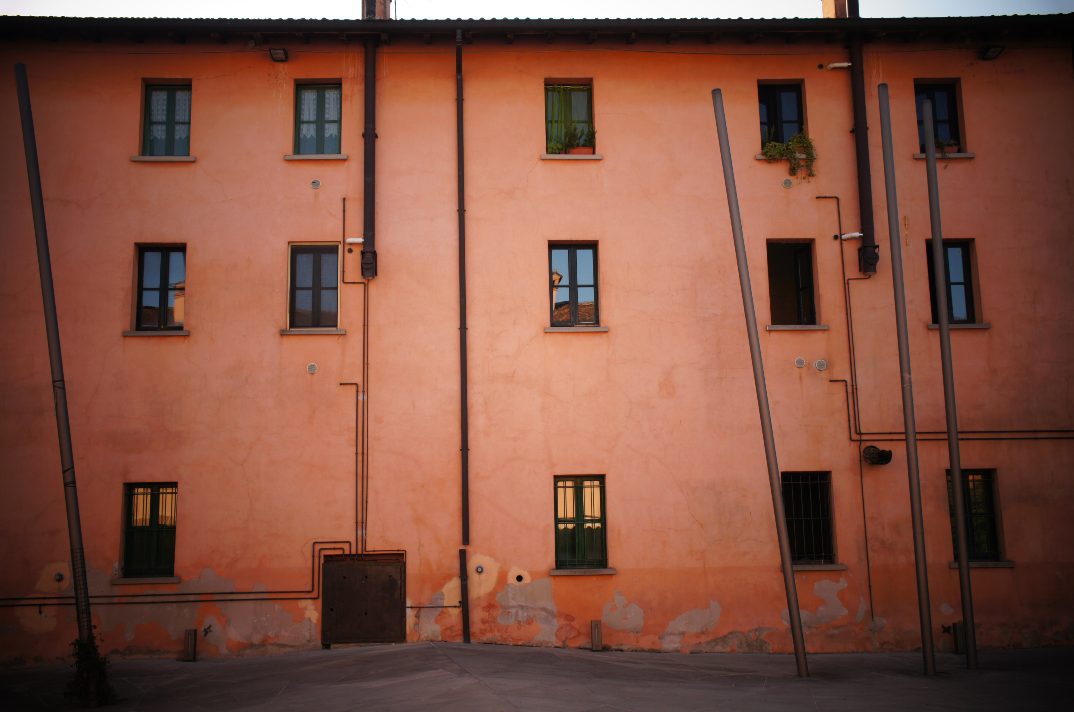 Building used to be the Visconty castle and is now used for public housing